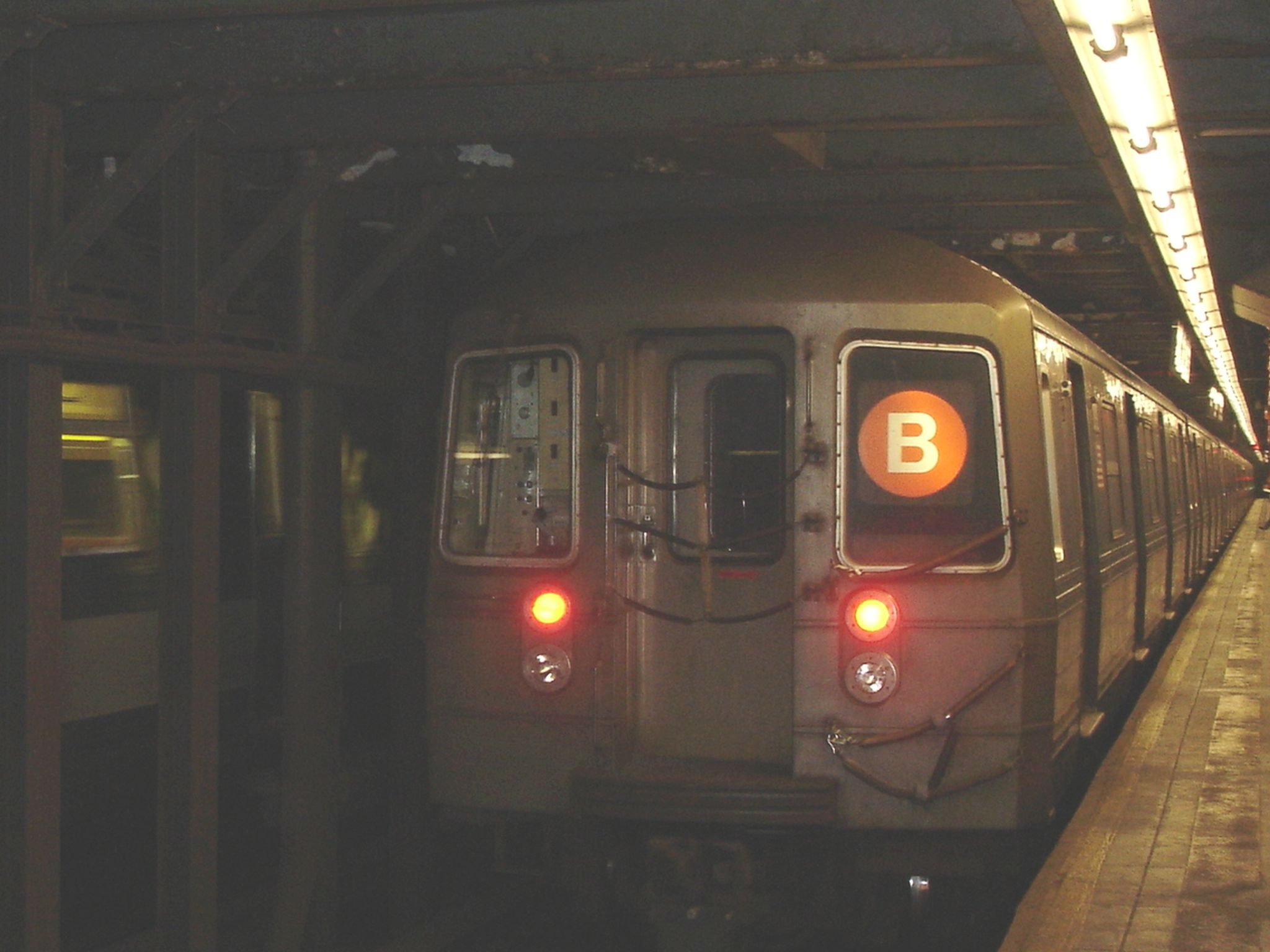 R68 train stops at 72nd Street station in Manhattan, New York.